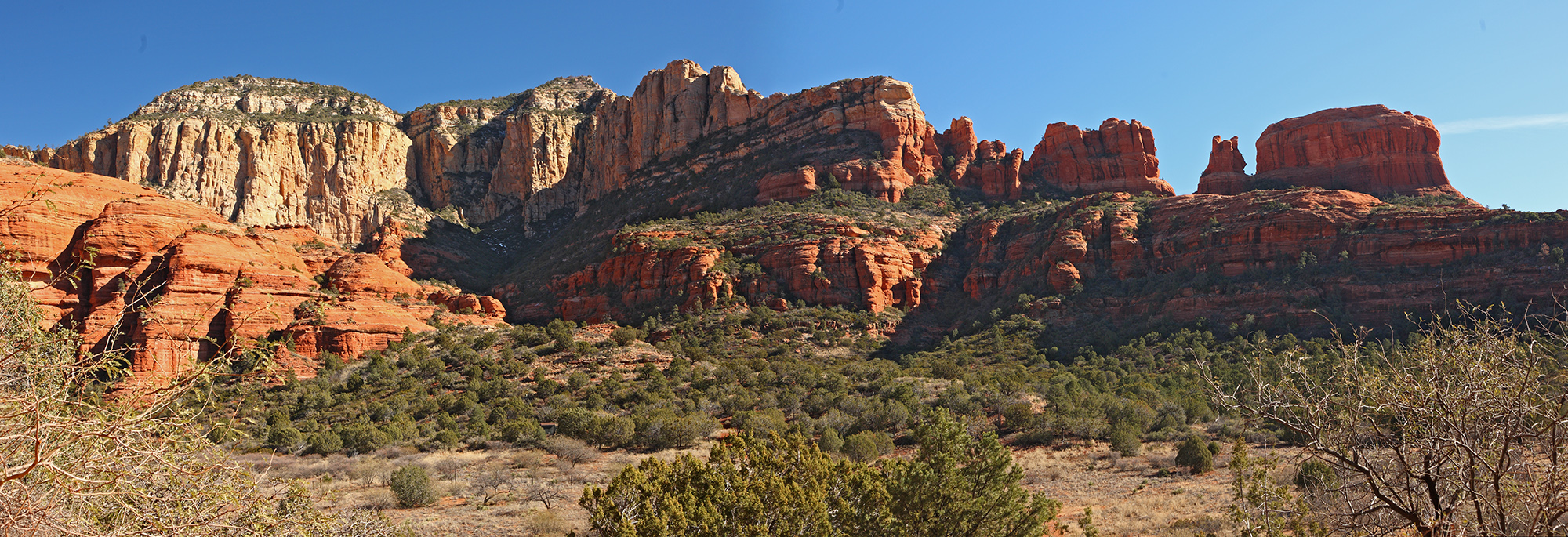 Rock formations at Palatki heritage site, in the Coconino National Forest in Sedona, Arizona. A cave drawing detailing the position of the moon and sun with respect to these rock formations and the solstices can be found on the walls of a cave facing the formation.